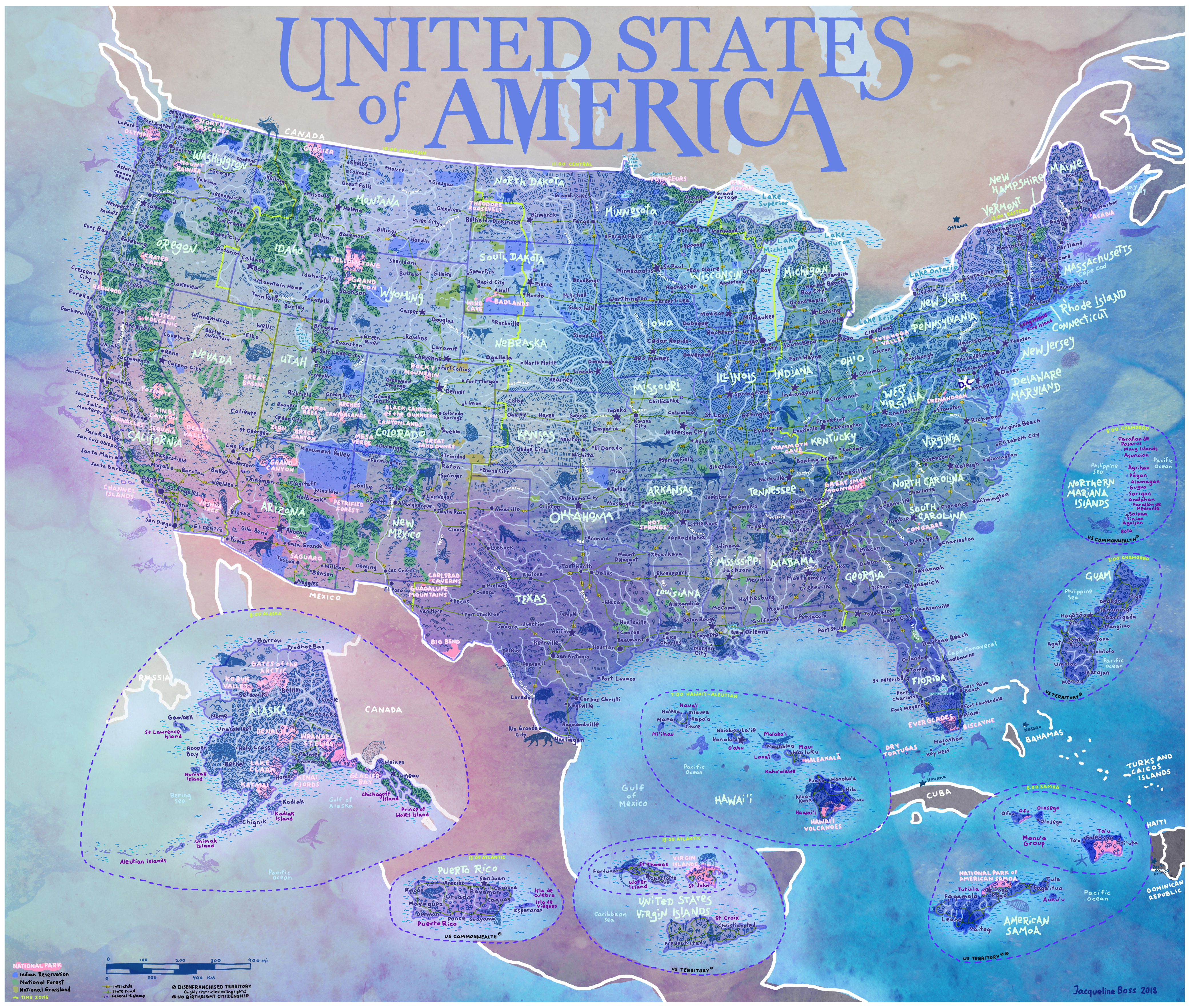 Large scale hand drawn map of the USA including the 50 states, populated US territories, National Parks, National Forests, National Grasslands, cities, states, and capitals, rivers, highways, and a fully illustrated landscape including over 100 wild animals.